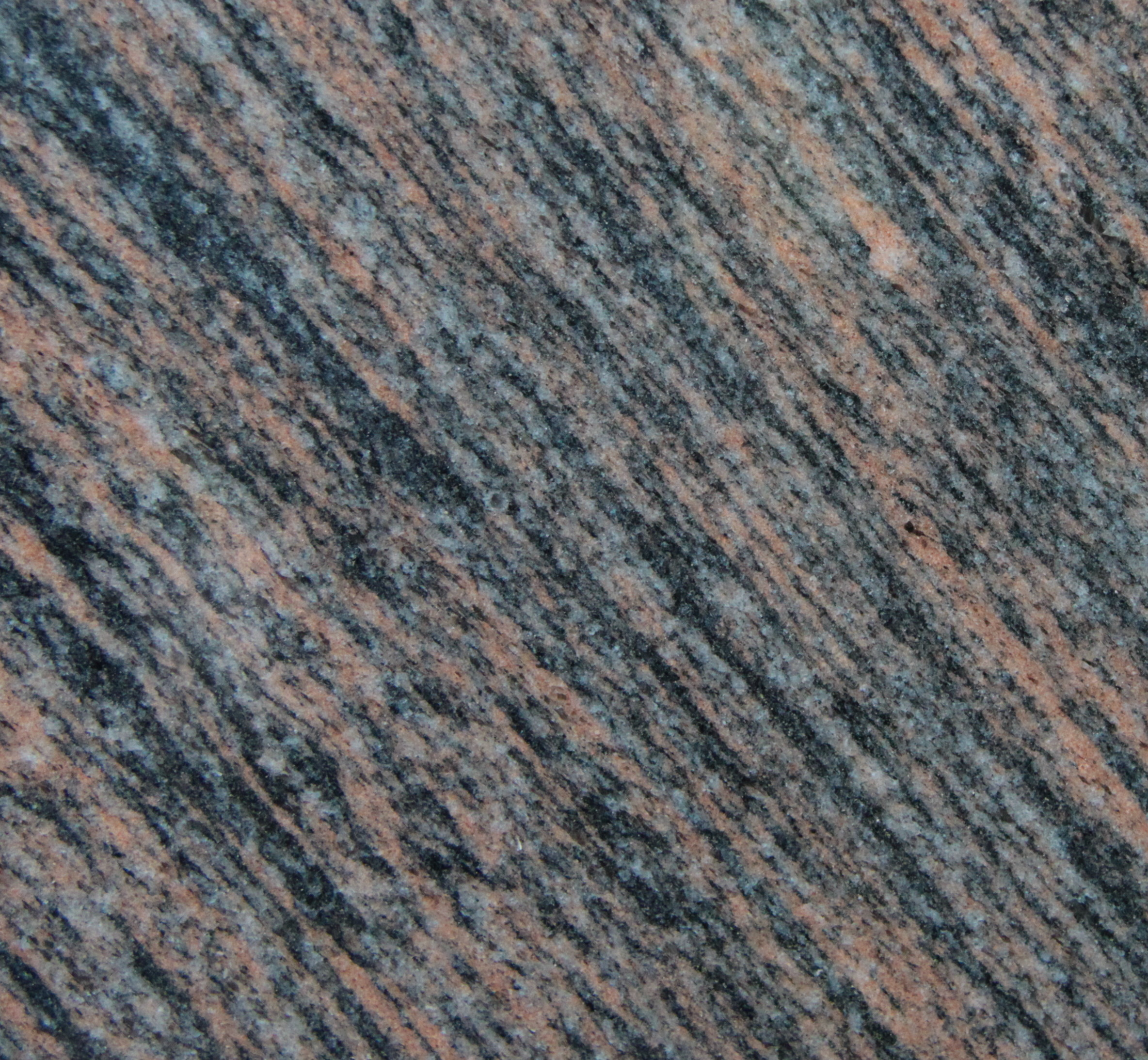 Hallandia, Halmstad or Bärap, Gneiss, Halmstad in Schweden, polish, 10x10cm